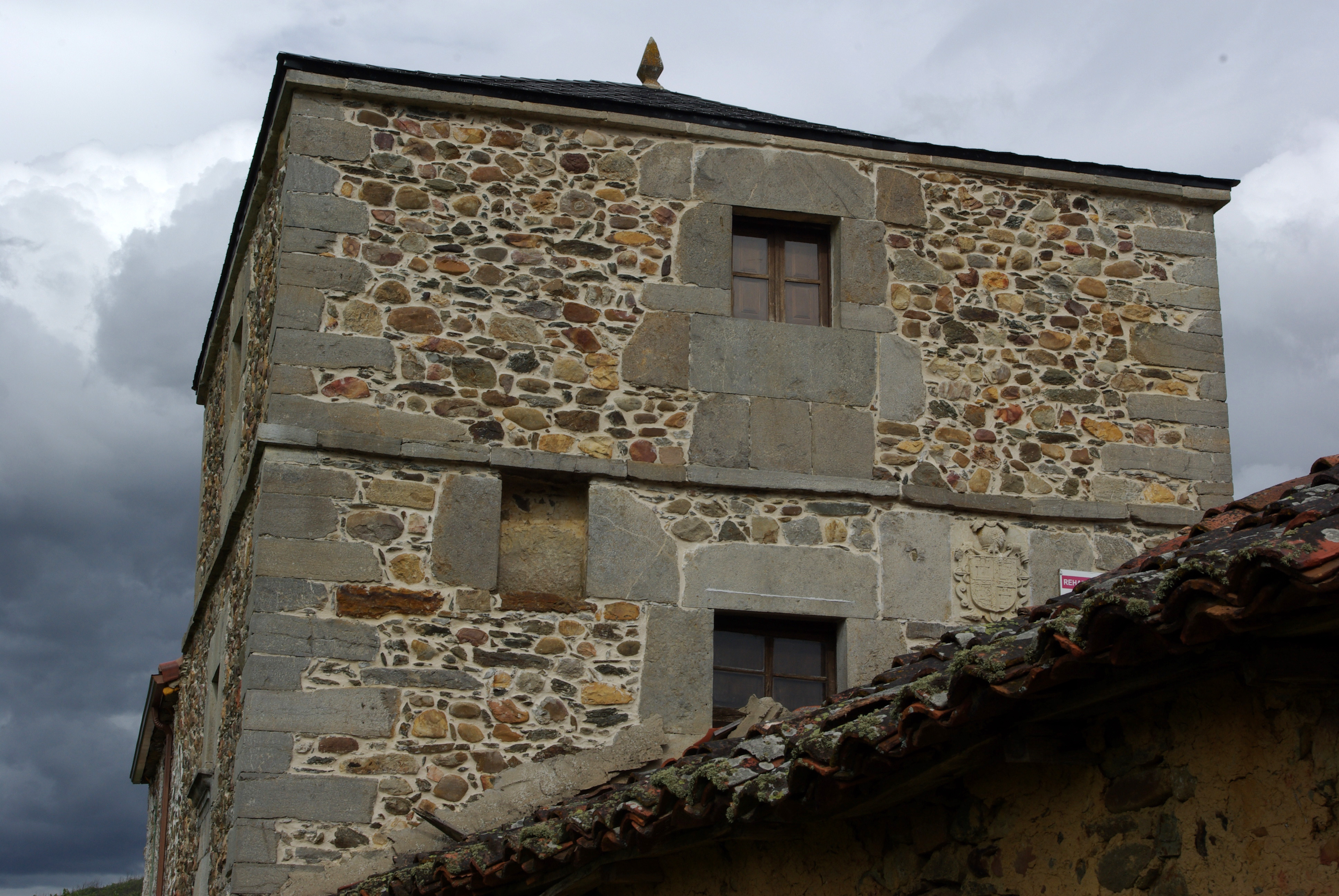 Tower with escutcheon Riello (León, Spain).